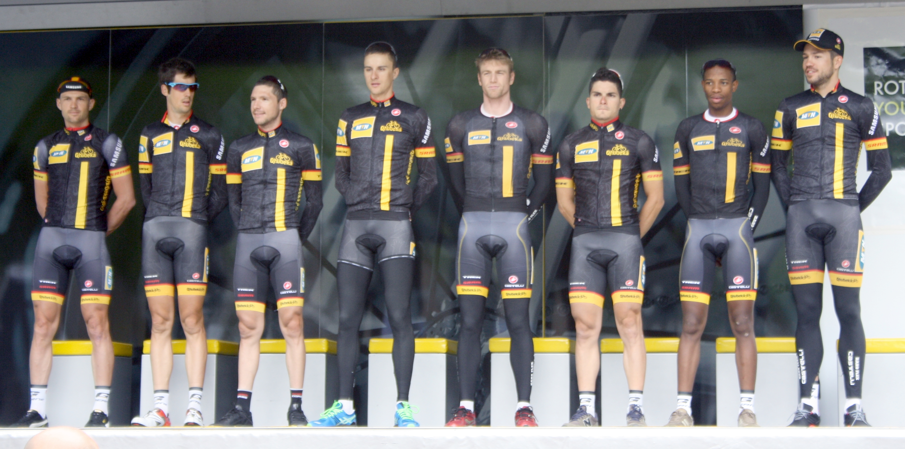 MTN Qhubeka at the start of the World Ports Classic 2014 in Rotterdam